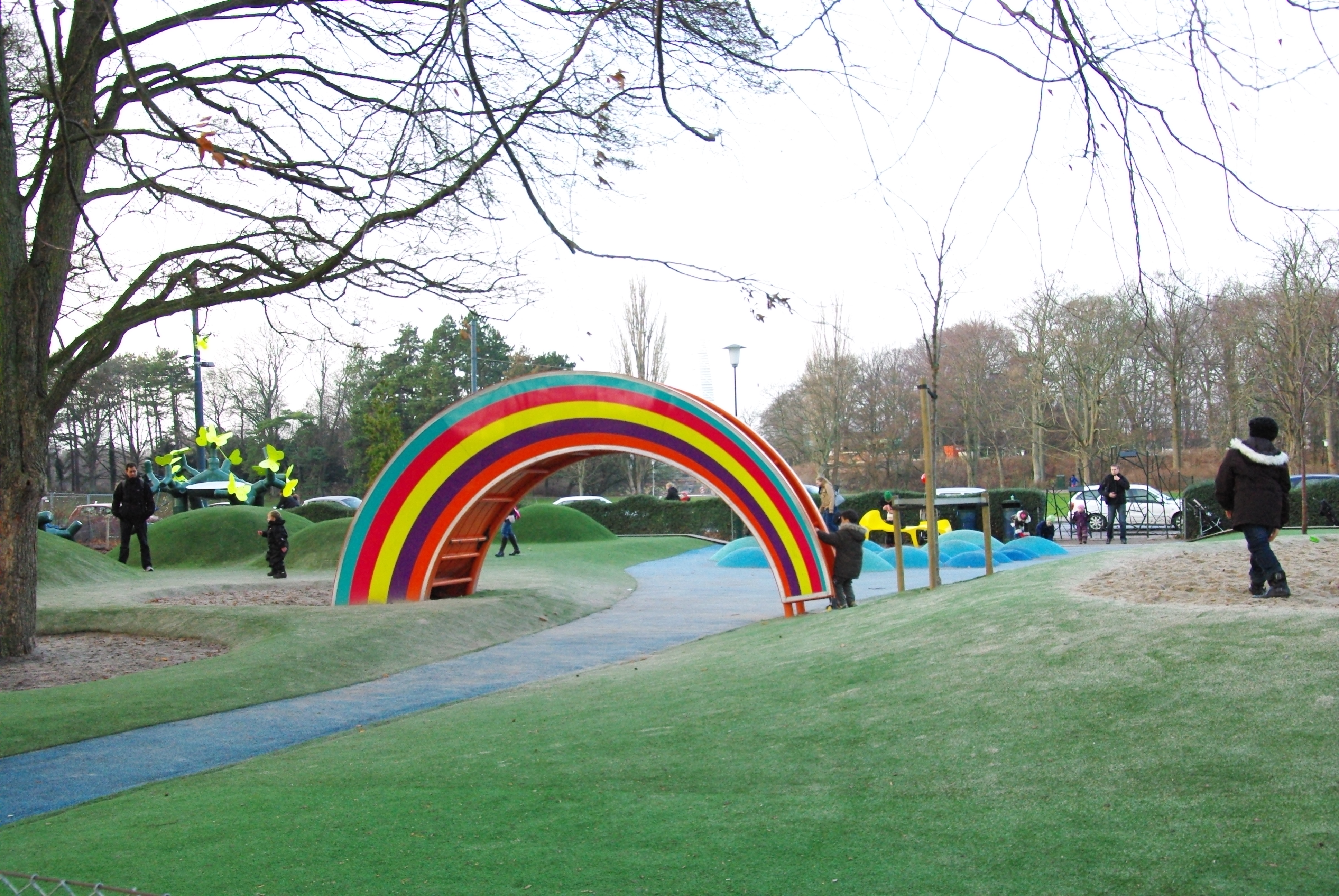 themeplayground, Slottsparken, playground